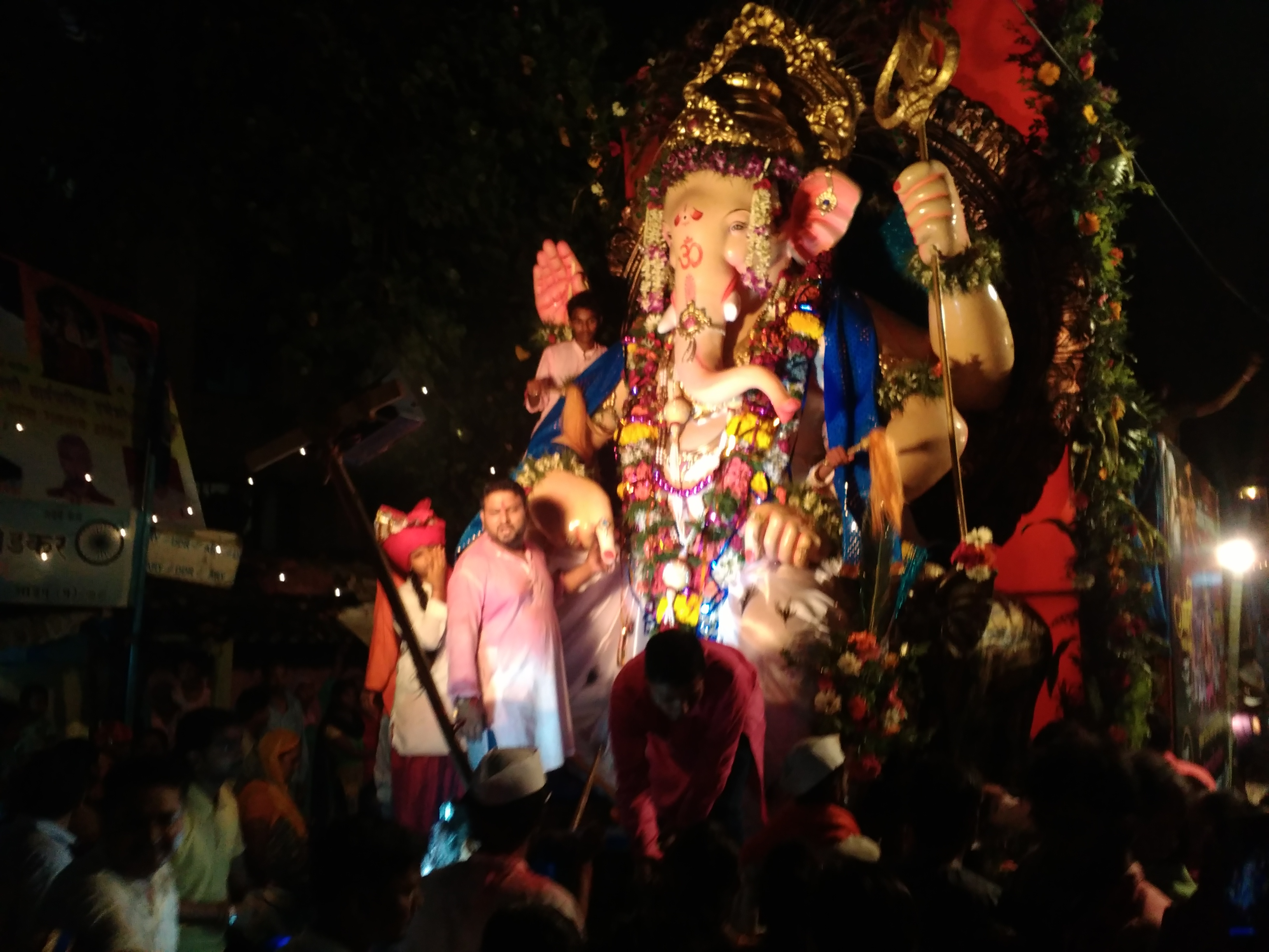 Ganesh Chaturthi in Bhandup (← Wikipedia article), 15 September 2016.